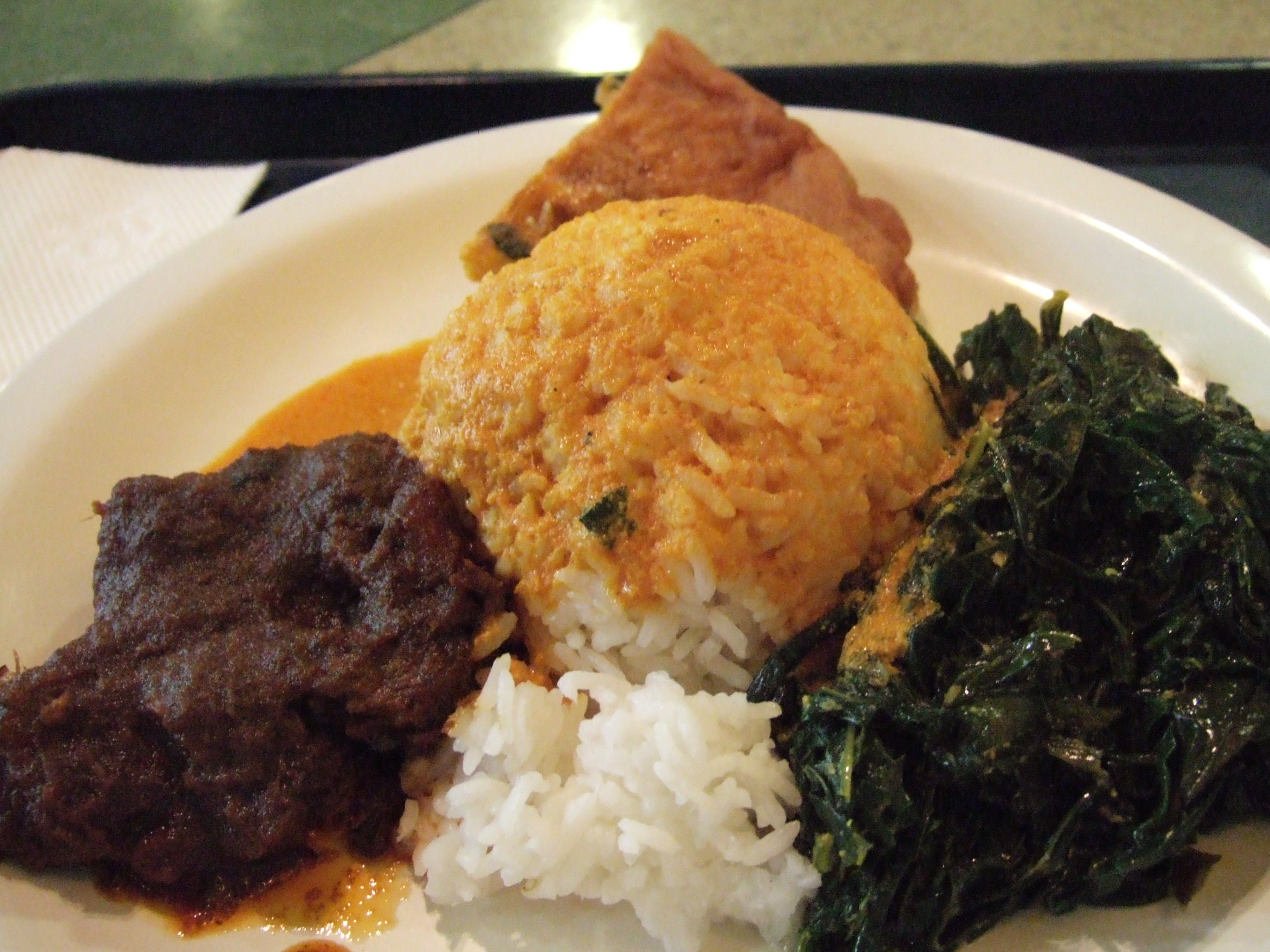 Nasi ramas, Indonesian spicy rice with beef rendang